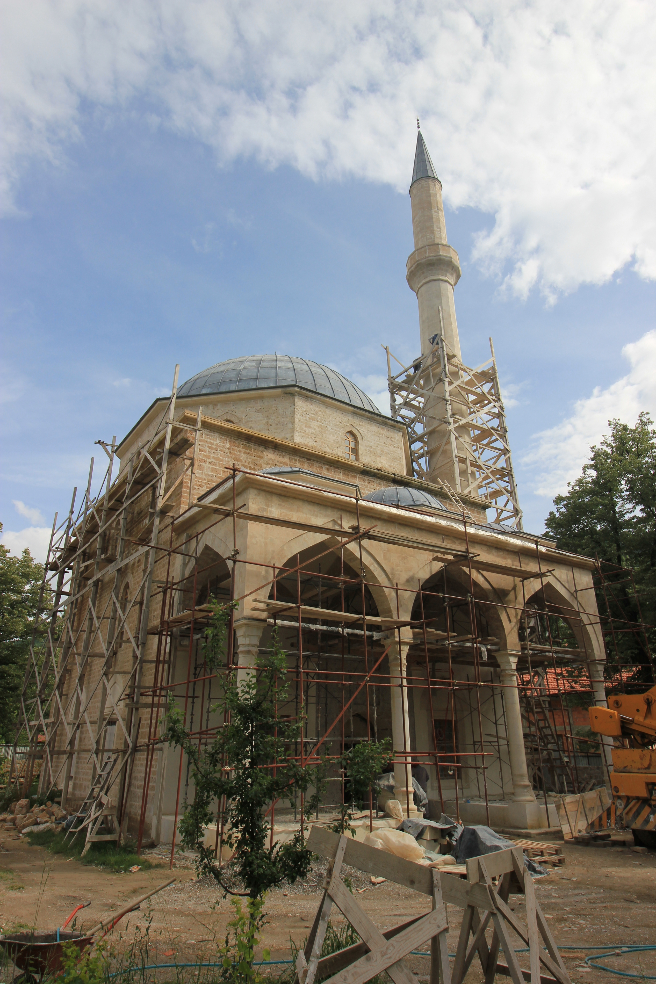 Aladža mosque in Foča during reconstruction in 2018.